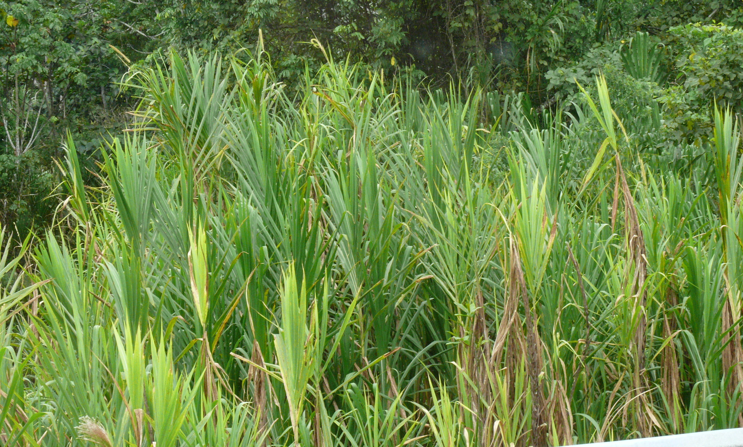 Gynerium sagittatum